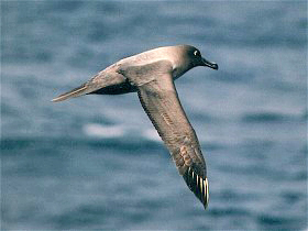 Light-mantled Albatross taken by Eric van Poppel & Caroline Don (User:Wildlifelands uploaded with permission (given by email), from their site